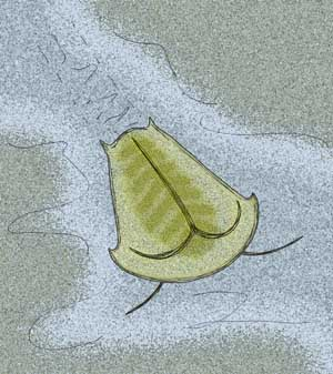 Reconstruction of the trilobite-like arthropod, Skania fragilis, from the Middle Cambrian of Burgess Shales